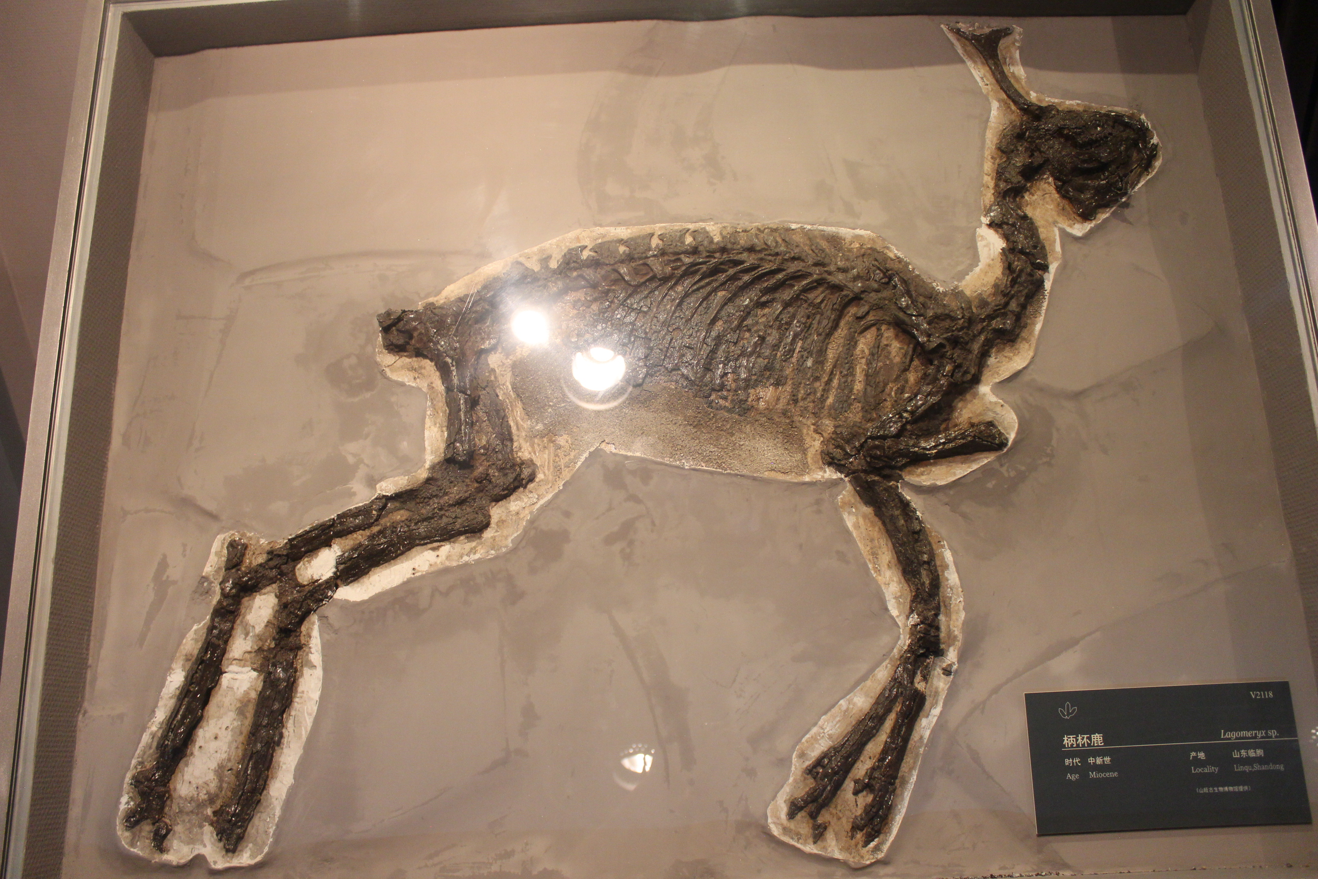 Skeleton of Lagomeryx sp. on display at the Geological Museum of China.